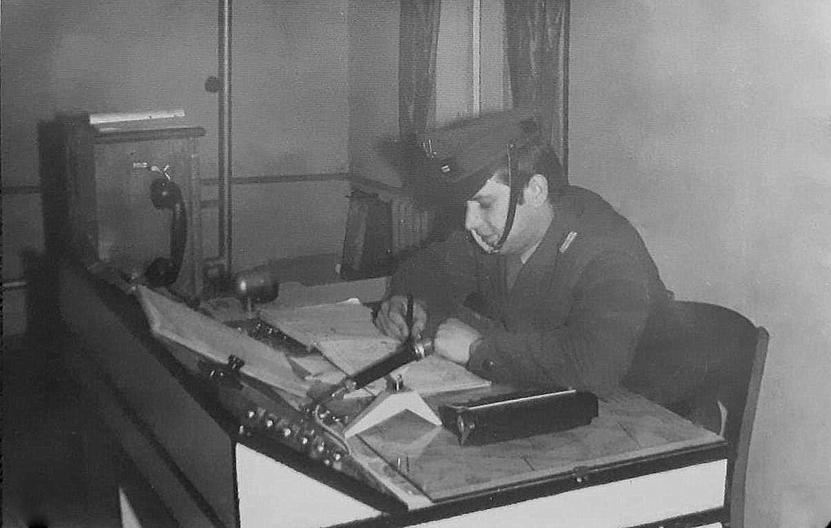 Border Protection Forces in Olszyna